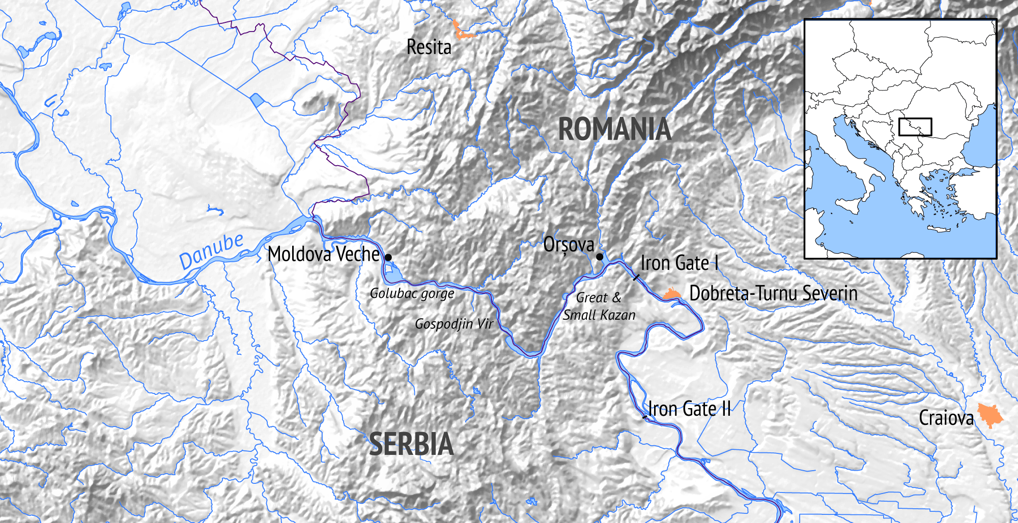 Map showing the location of the Iron Gates